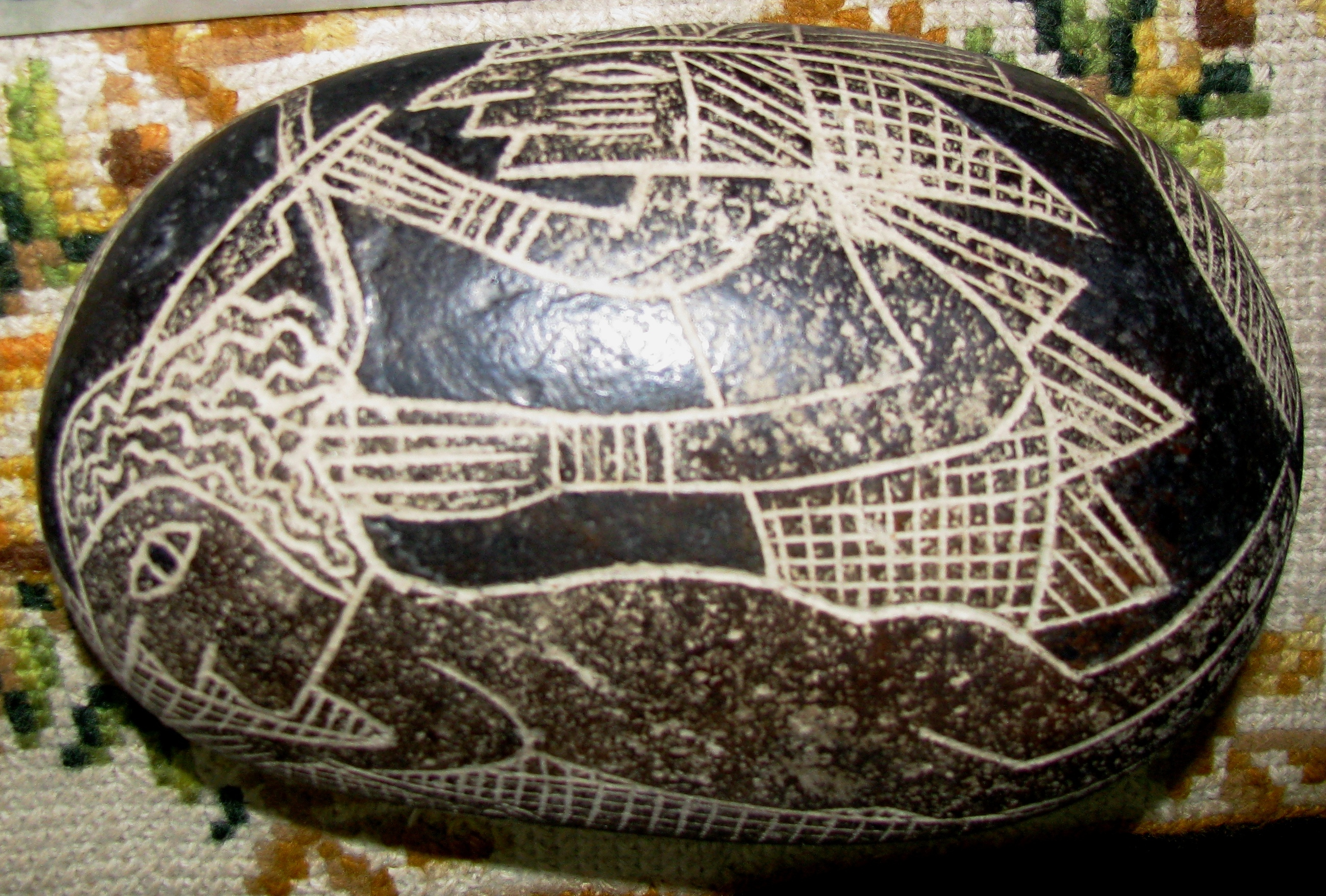 Ica stones